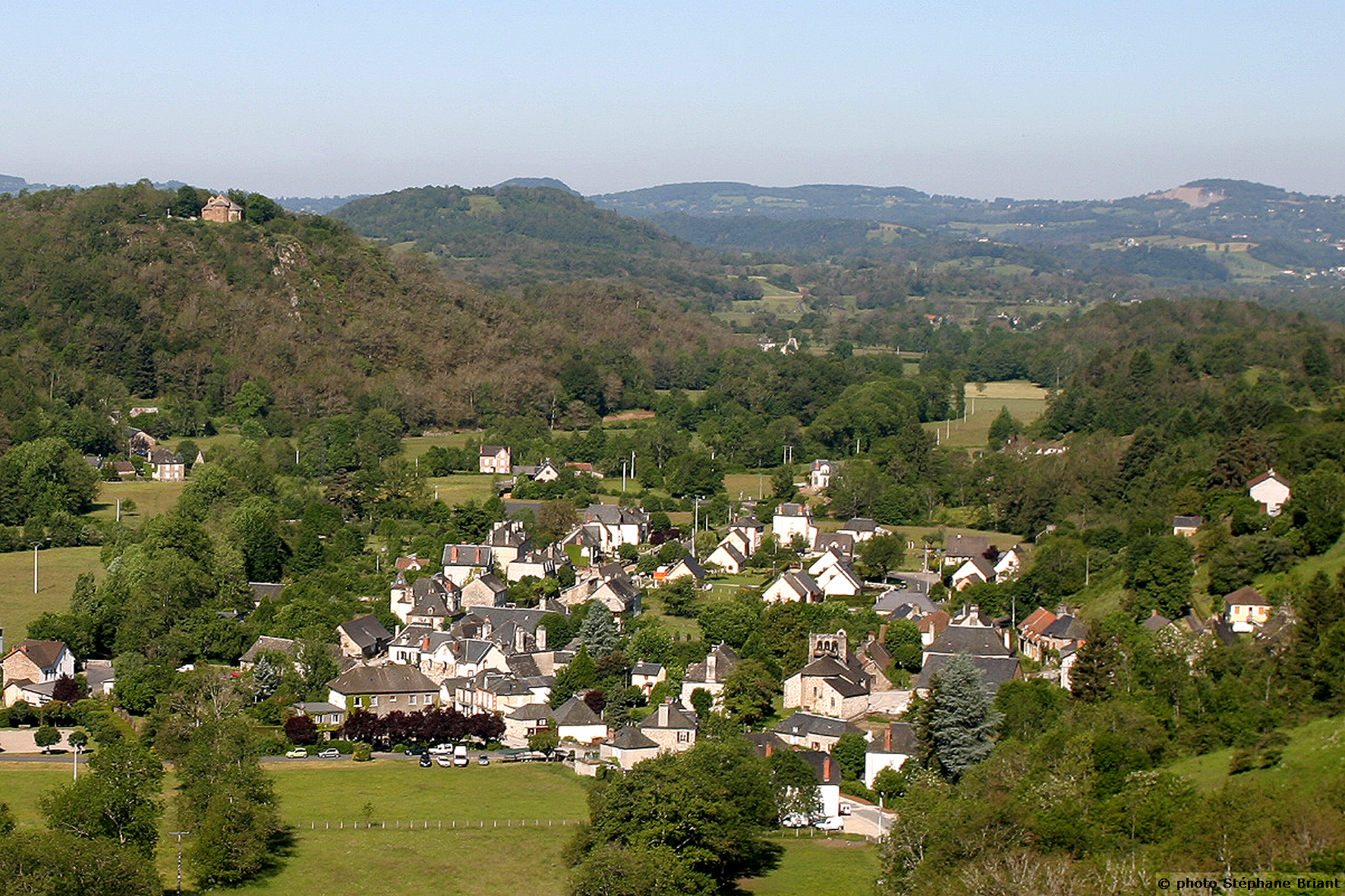 Antignac small town in Cantal (France)